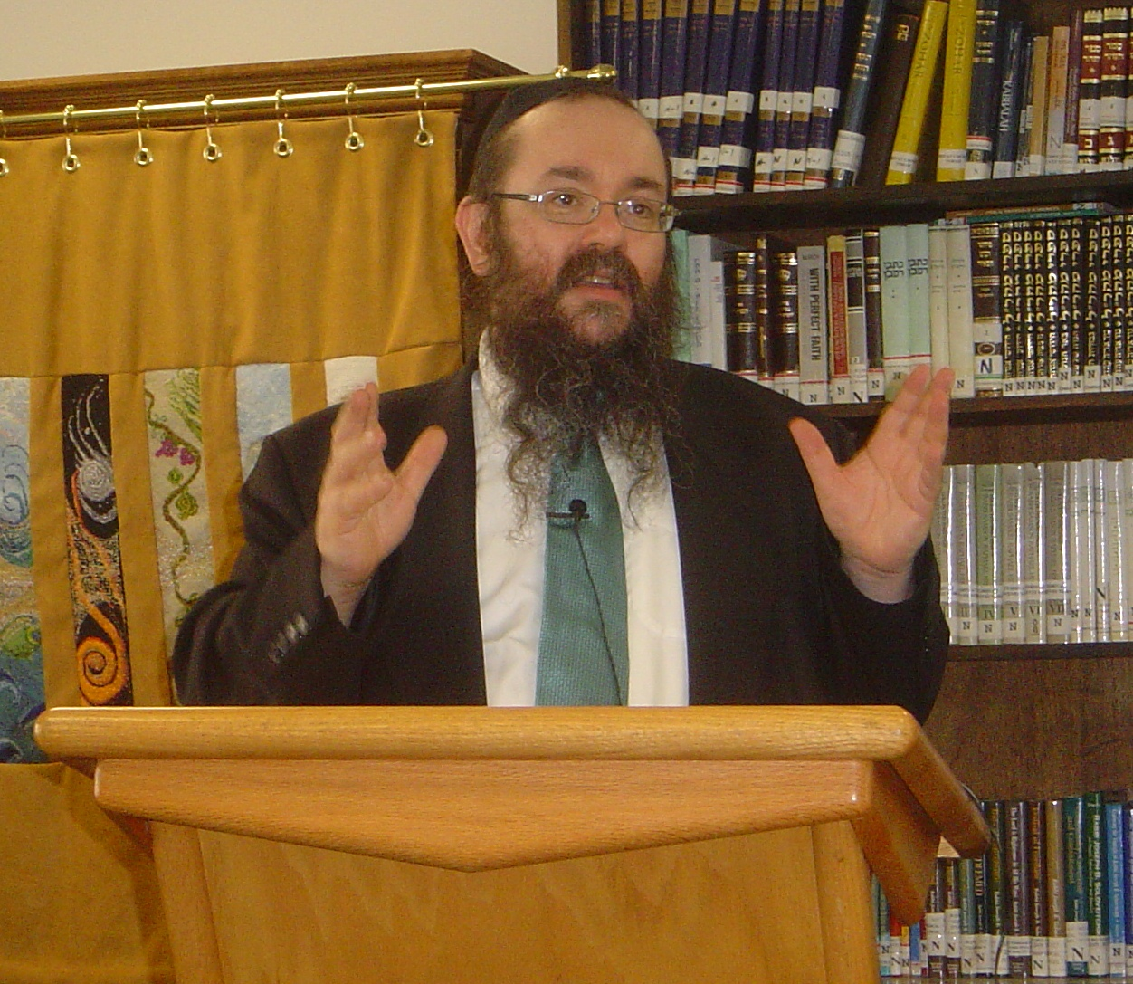 Rabbi Chaim Rapoport speaking at Yeshivat Chovevei Torah Rabbinical School on 5 June 2008 during YCT's first ever Physical Disabilities Minimester.